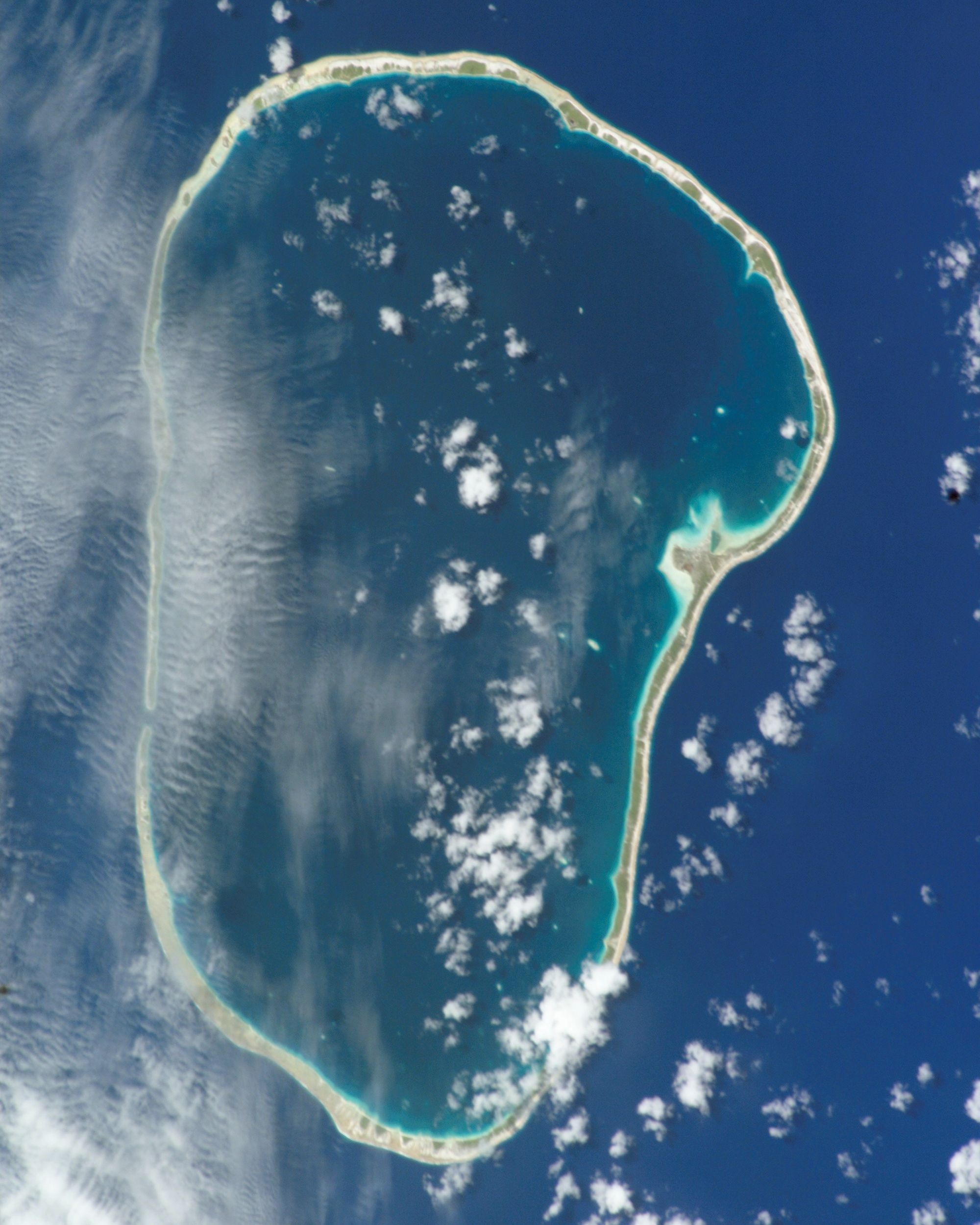 NASA astronaut image of Kauehi Atoll (Tuamotu Archipelago, French Polynesia) in the Pacific Ocean